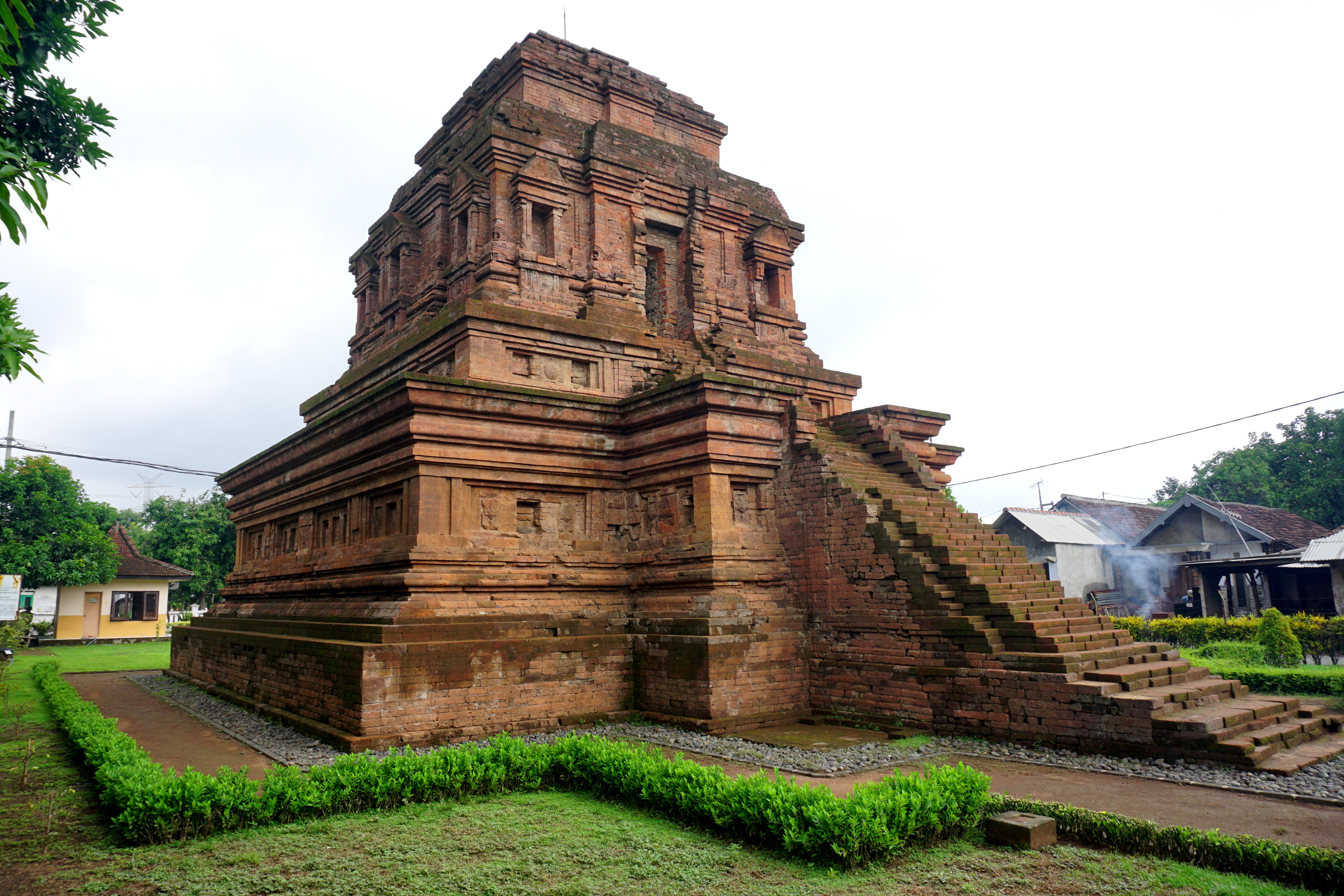 036 View from South, Gunung Gangsir, Pasuruan Candis, East Java Pasuruan, East Java